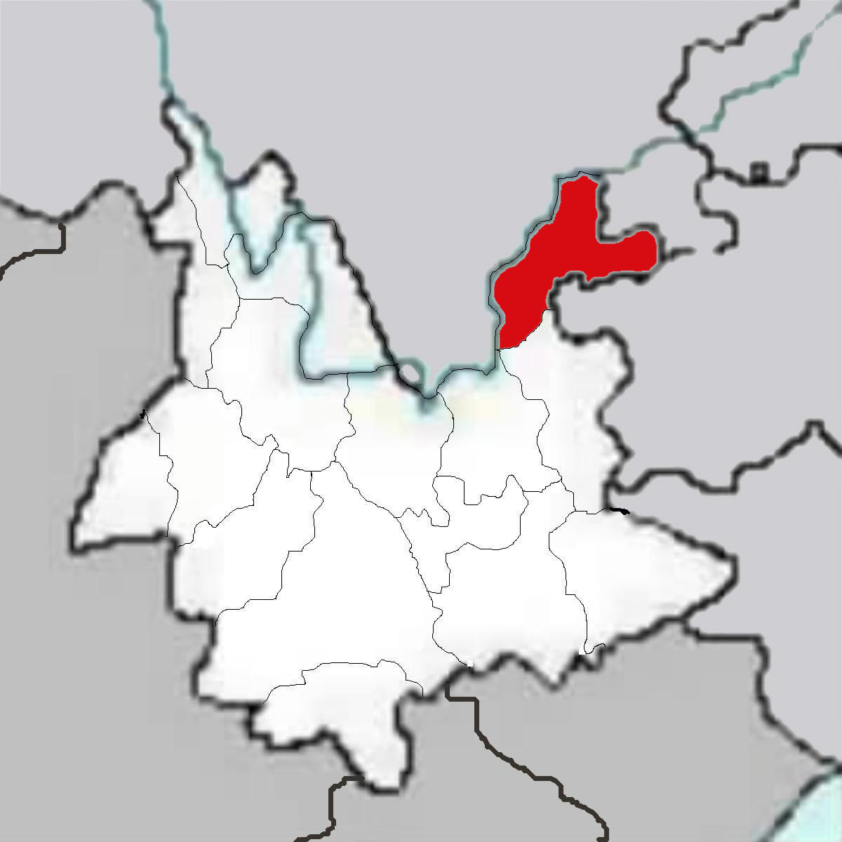 Yunan(云南) Province of China